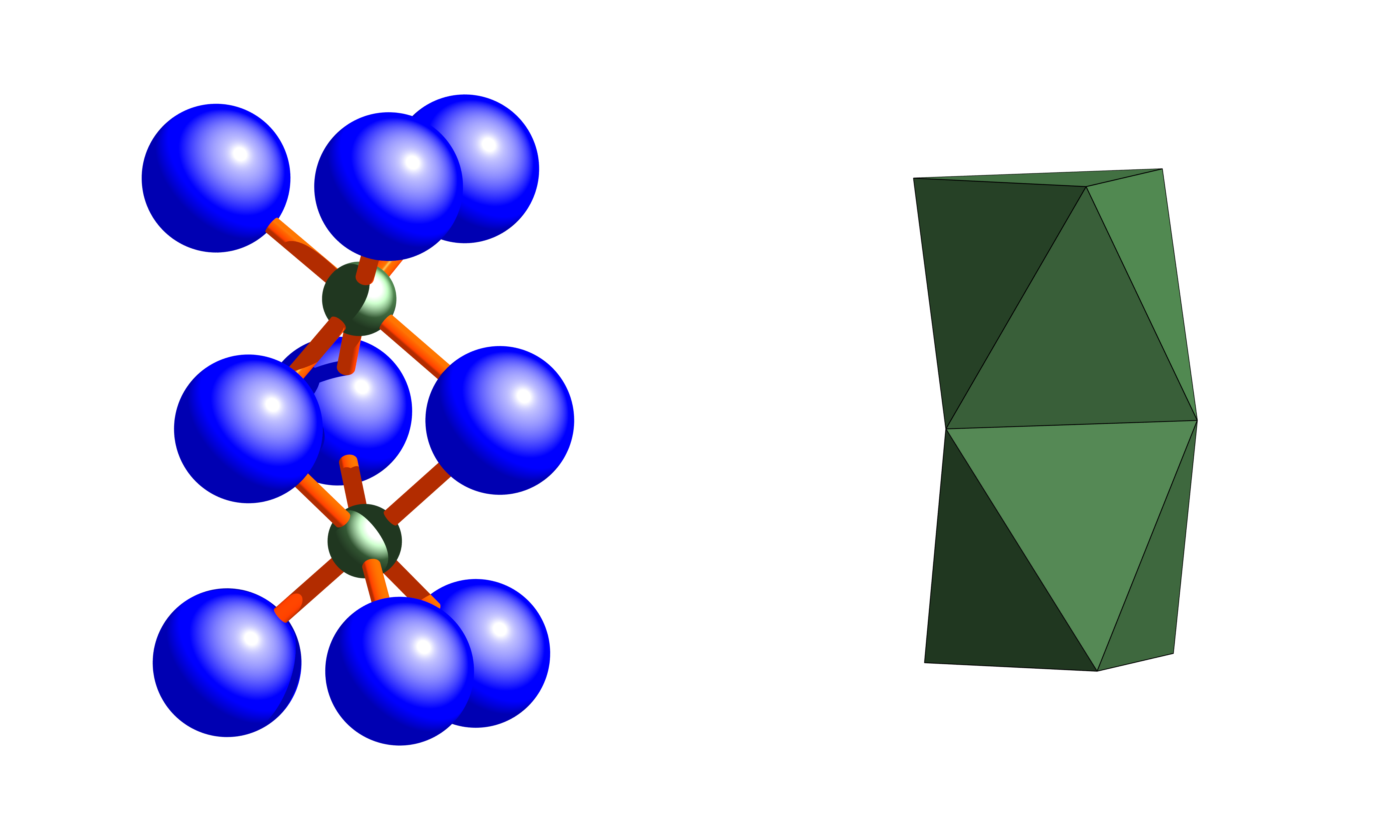 part of aerinite structure: chain of face-sharing Fe-octahedra green: iron blue: oxygen